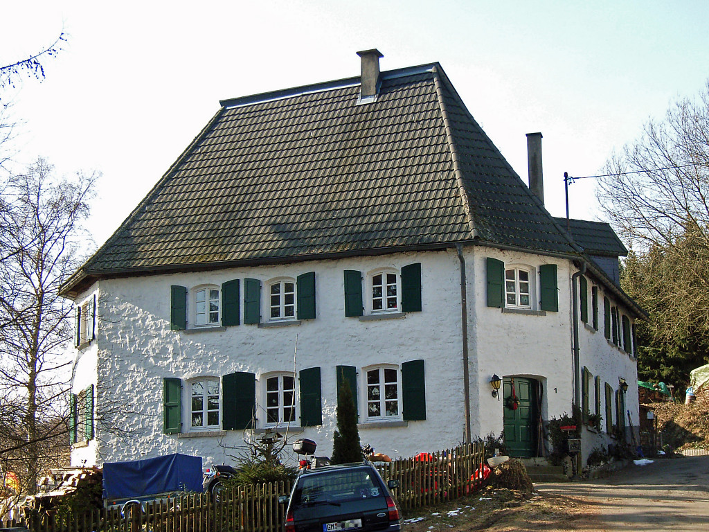 Helberg, district of Gummersbach, North Rhine-Westphalia, Germany: The so called "castle" (a fortified farm house)